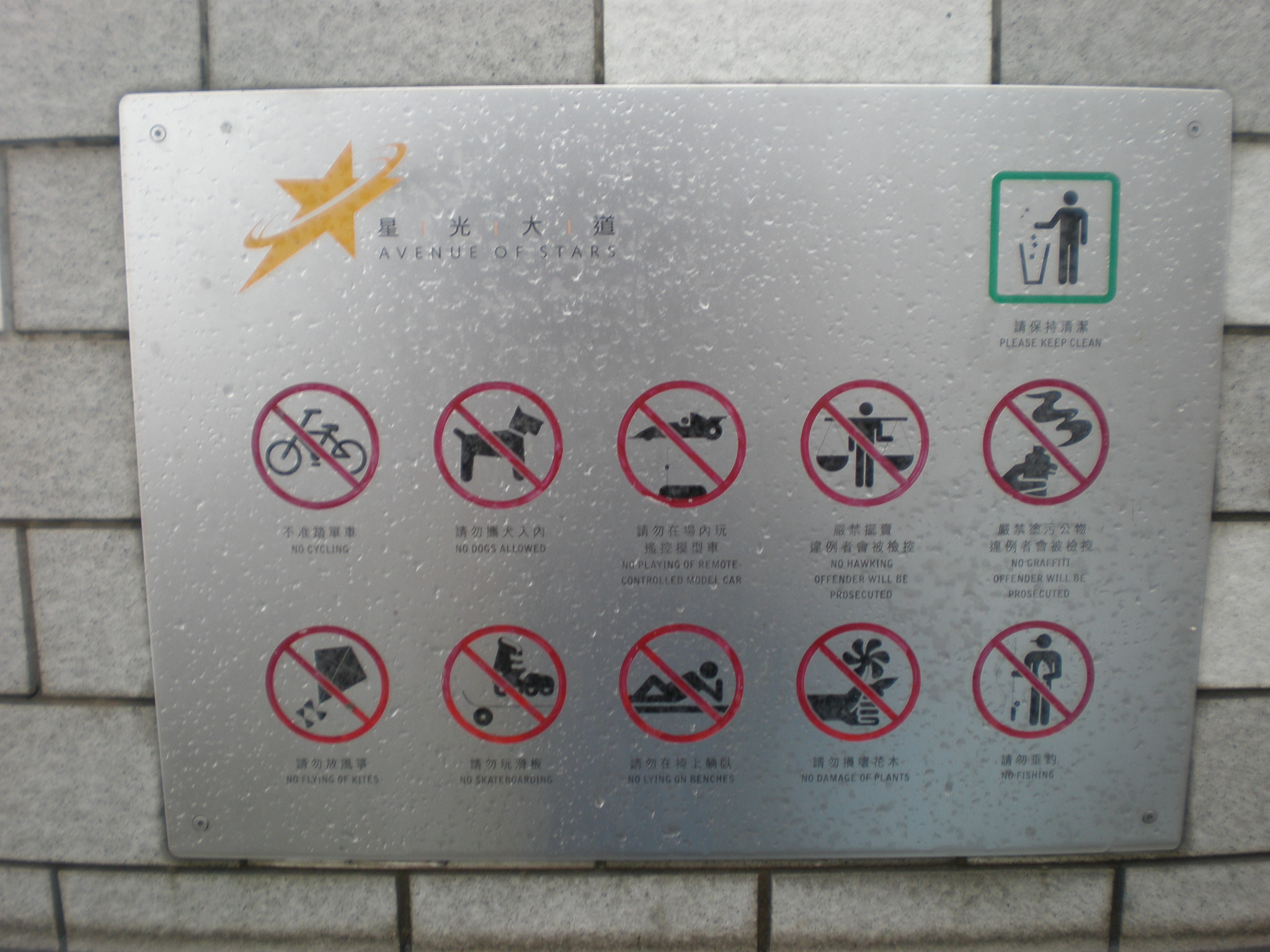 Prohibition sign on the Avenue of Stars in Hong Kong.